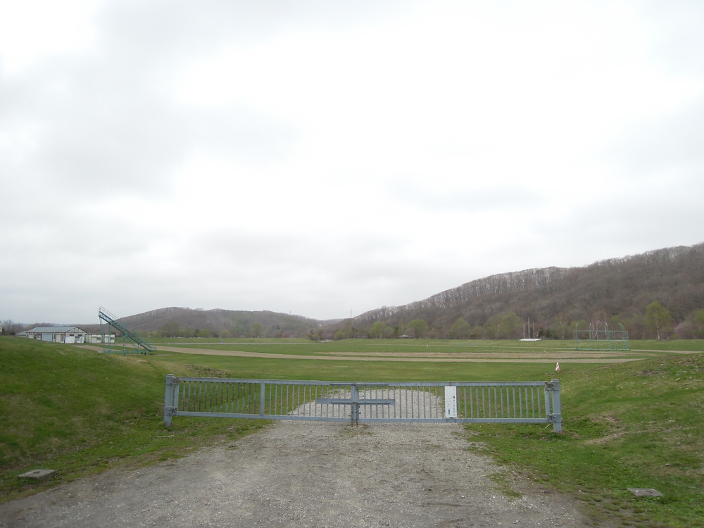 Midorigaoka Park (Tomakomai city, Japan) athletic stadium